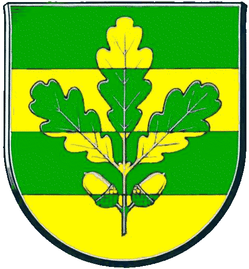 Coat of arms of Raisdorf, part of Schwentinental Blasonierung: Von Grün und Gold dreimal geteilt und ein Eichenzweig in vertauschten Farben.